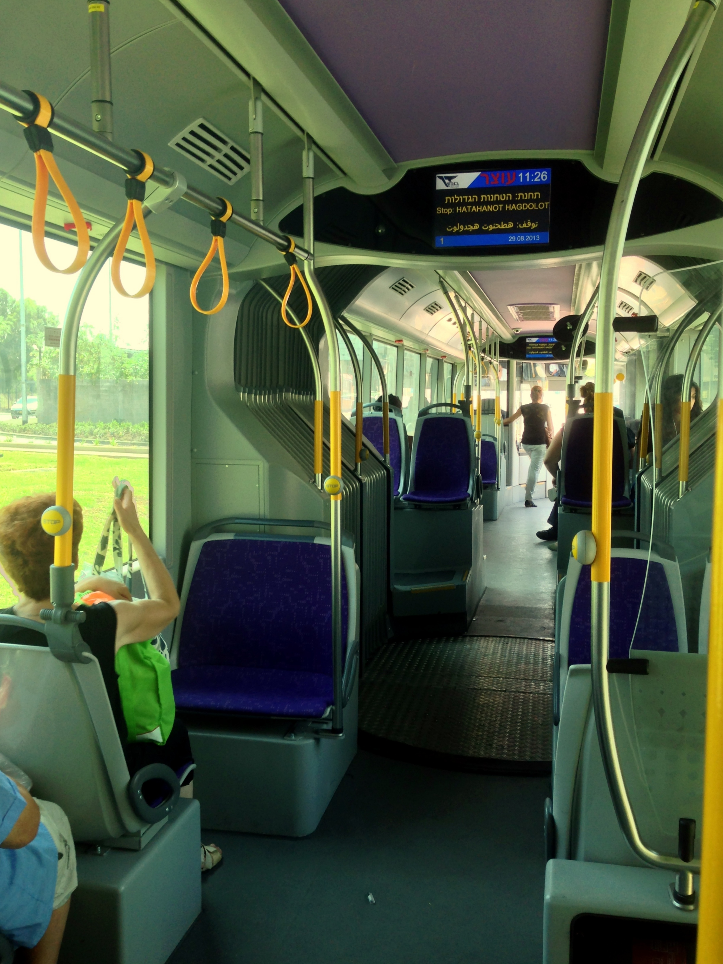 Inside the Metronit, the new bus rapid transit system in Haifa, Israel, August 2013